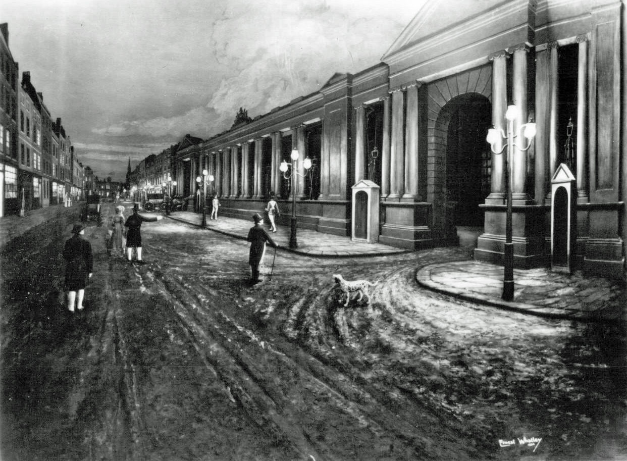 This is a diorama by Ernest Whatley issued as a postcard by the Science Museum in the 1930s. It shows the screen in front of Carlton House in Pall Mall and the first street lighting in London circa 1809. The south side of Pall Mall was lit by a German proponent of gas lighting named Friedrich Winzer in 1807, he went on to light Westminster and Southwark but later left the UK in 1812 after encountering financial difficulties. I have a problem with the diorama, the sentries shown outside Carlton House appear to be Grenadier Guards wearing bearskins, the 1st Regiment of Foot did not adopt the name Grenadier or the bearskin until after Waterloo in 1815. Carlton House was the home of the Prince Regent, when he ascended the throne in 1820 it was decided that he should live at Buckingham House and that Carlton House be demolished. The house was demolished in 1825 and the site used for the new streets, Carlton House Terrace and Carlton Gardens, columns from the house were used for the portico of the National Gallery in Trafalgar Square.